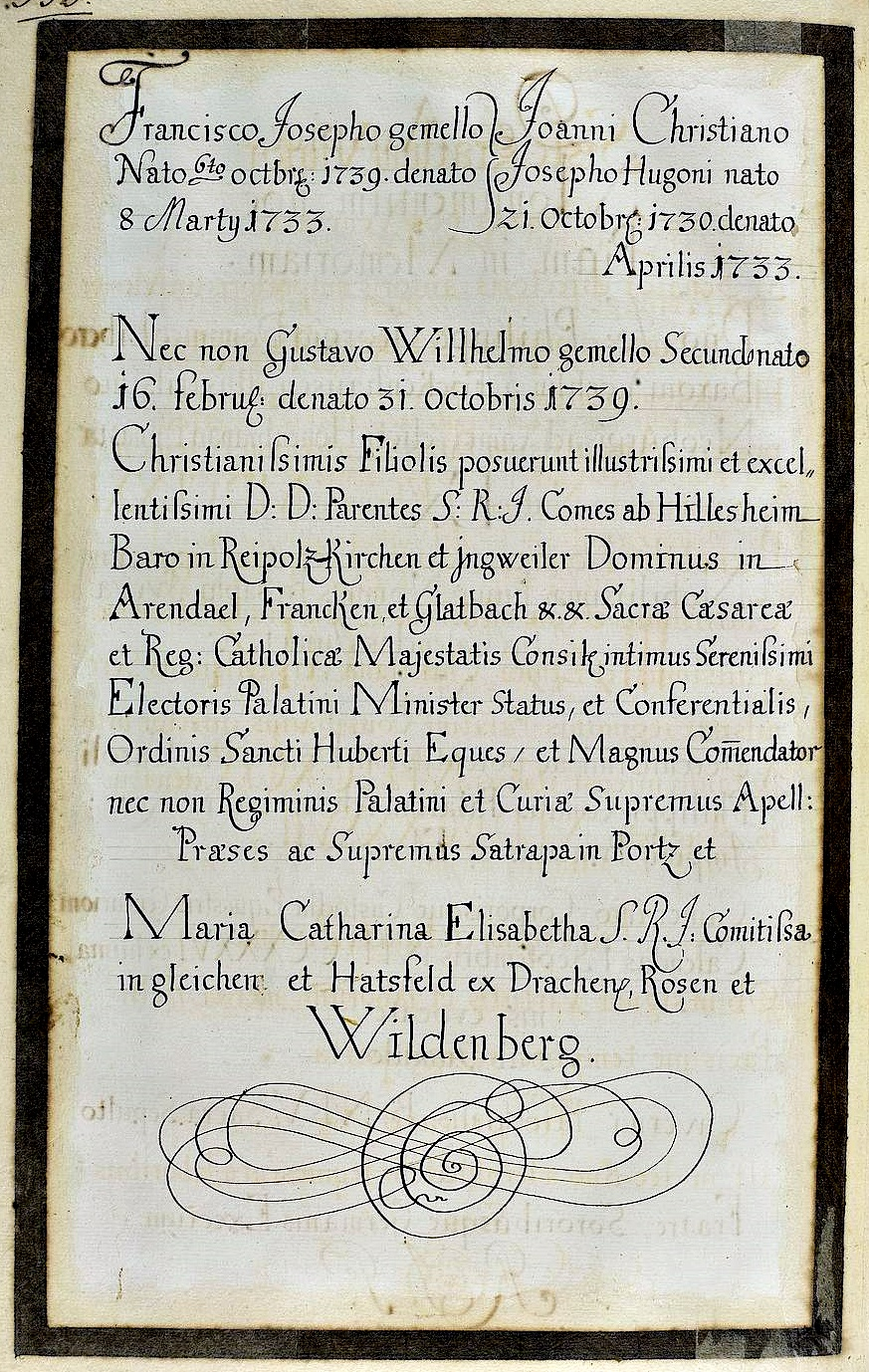 Epitaphinschrift "von Hillesheim", Mannheim, St. Sebastian (nicht mehr vorhanden)